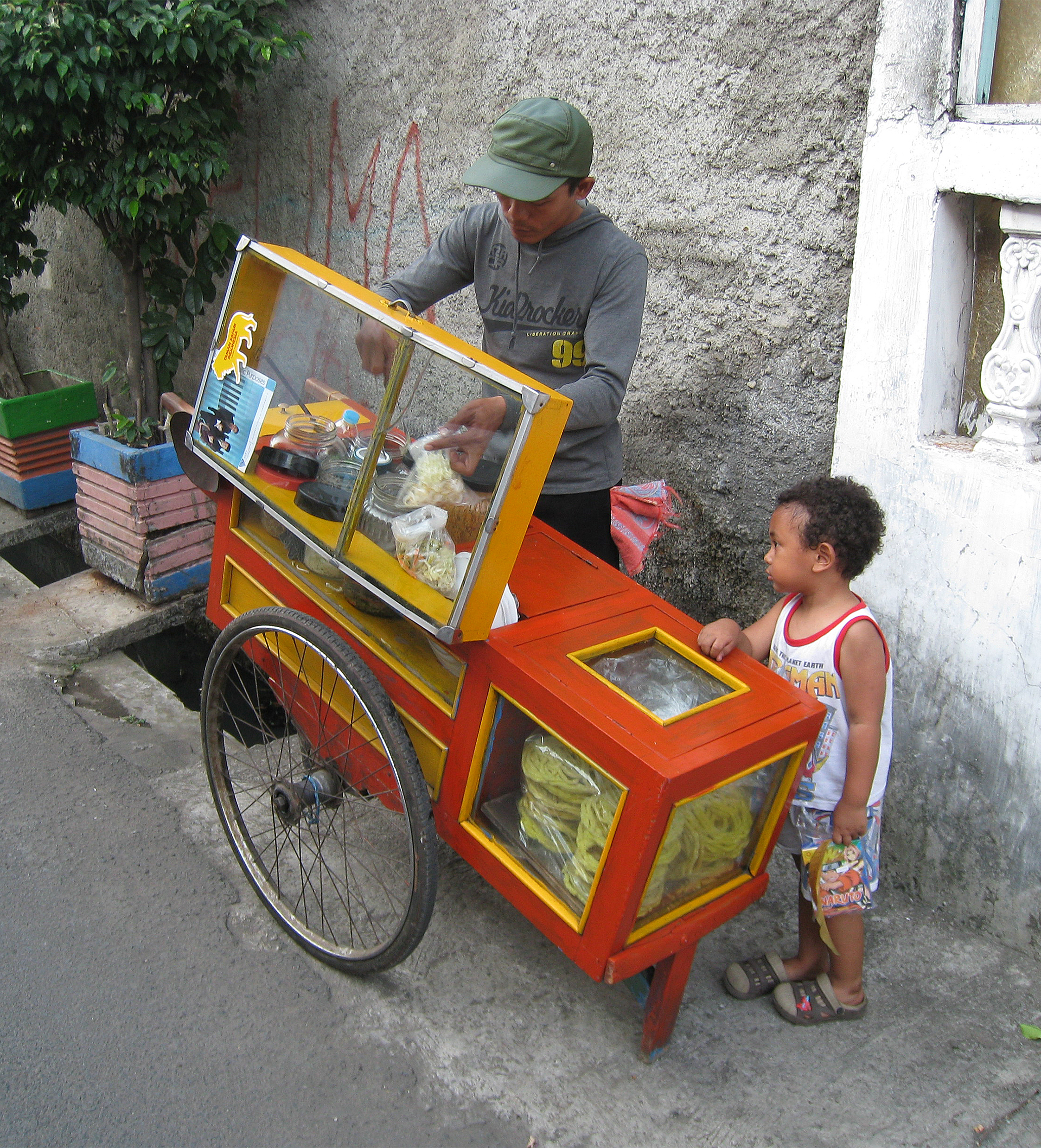 Asinan peddlar frequented residential area in Rawasari Timur, Central Jakarta, Indonesia, selling asinan, preserved vegetable dish commonly found in Jakarta, Betawi cuisine, Indonesia.